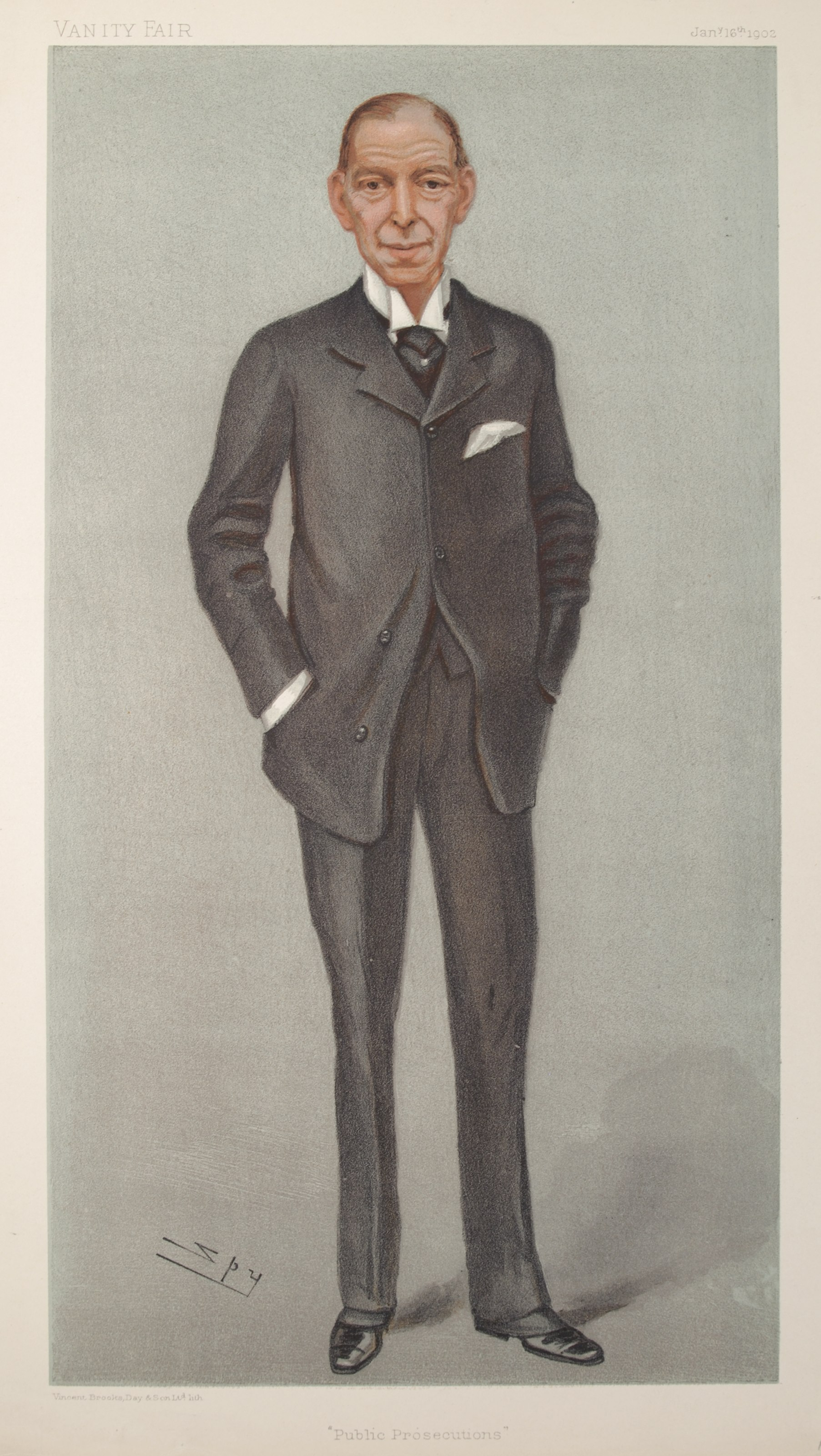 Men of the Day No. 833: Caricature of Hamilton Cuffe, 5th Earl of Desart. Caption read "Public Prosecutions".